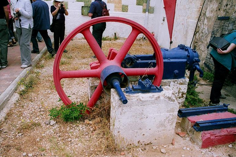 Mechanic pump of the well